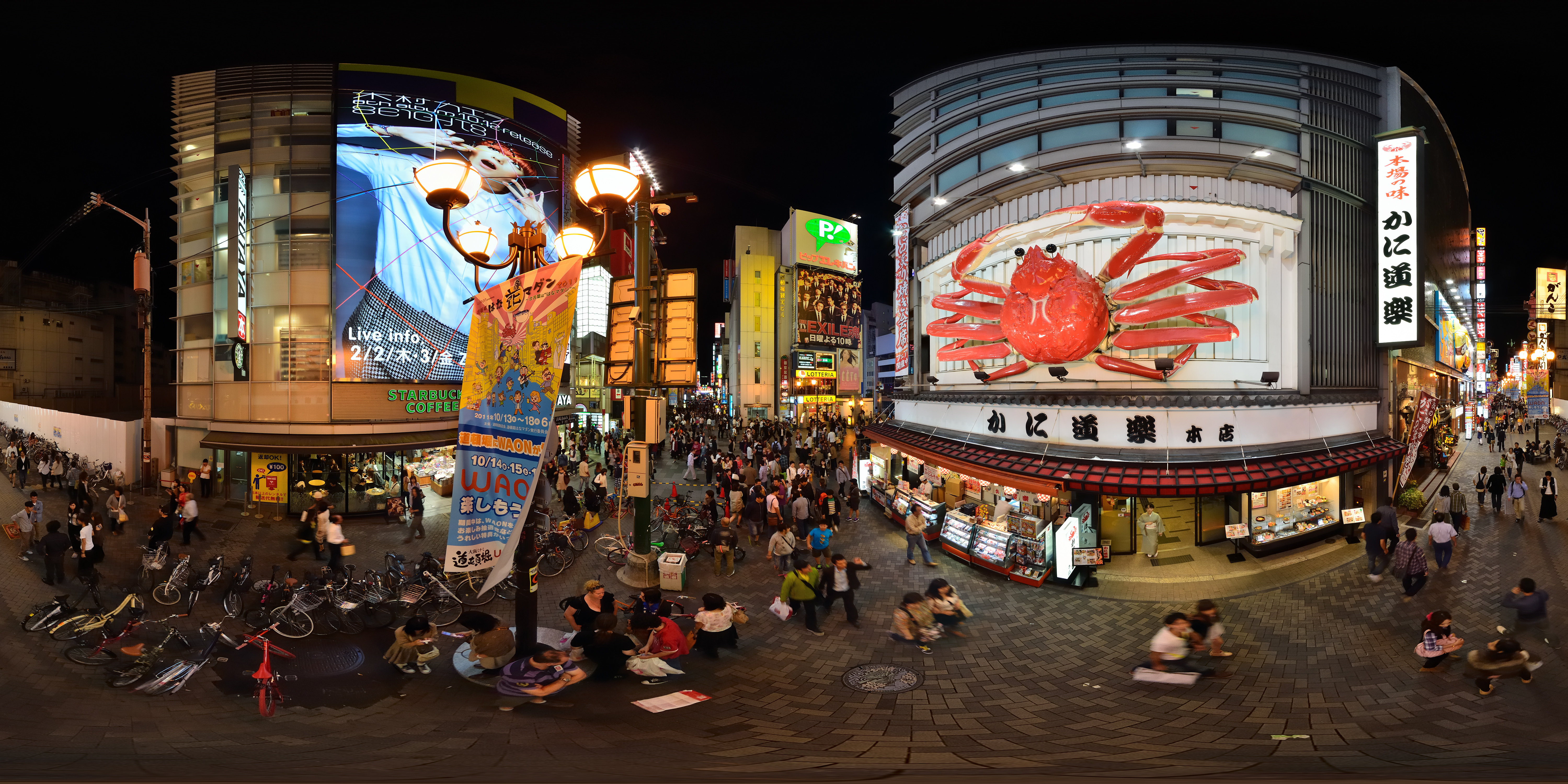 Japan Kani Doraku